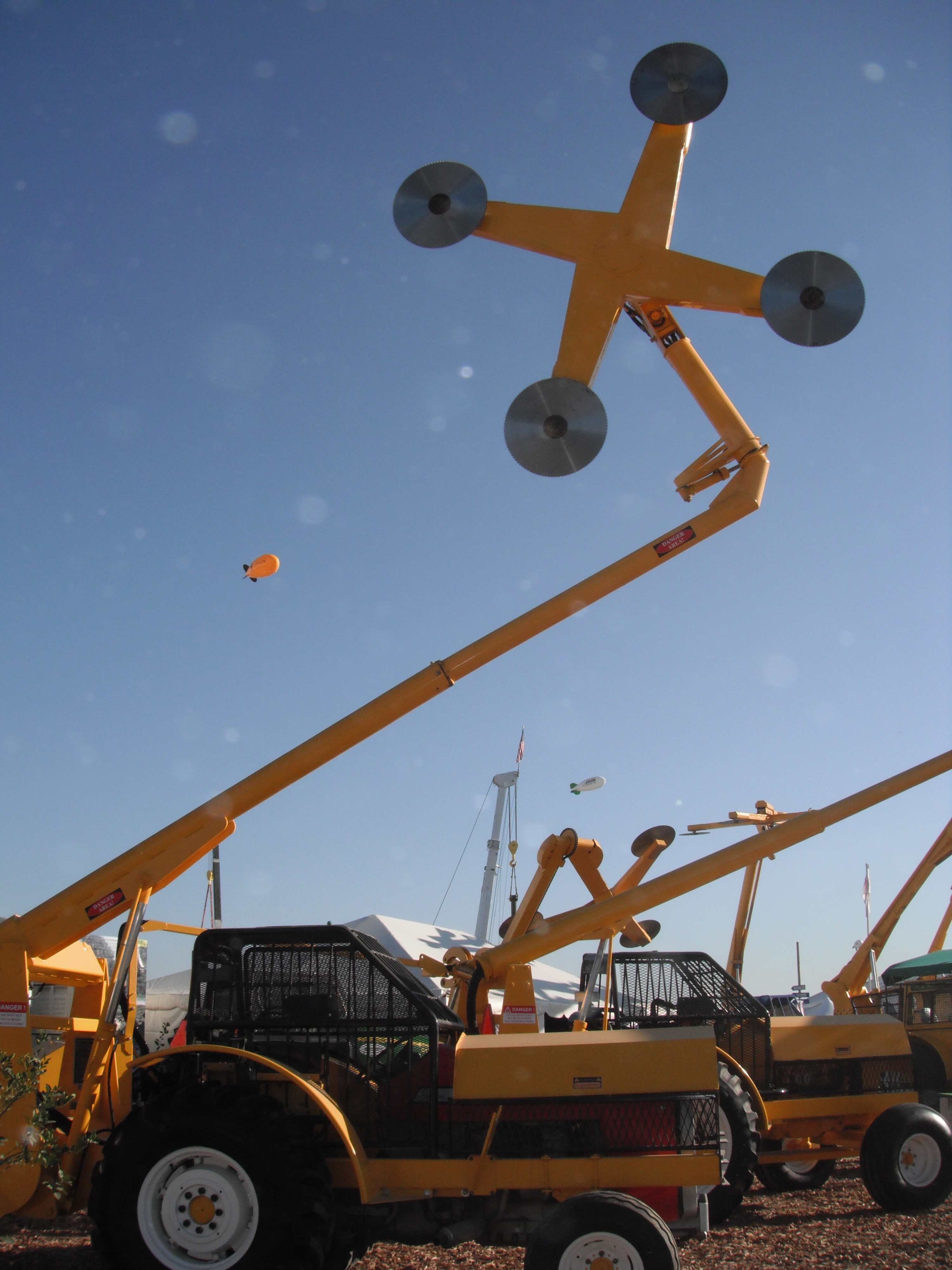 Self-propelled tree trimmers/toppers/hedgers (pruning machines) manufactured in Israel by Machinery & Engineering Ltd. (Afron) at World Ag Expo 2011 (TOL Inc. from Tulare, CA, is the main dealer in the USA).